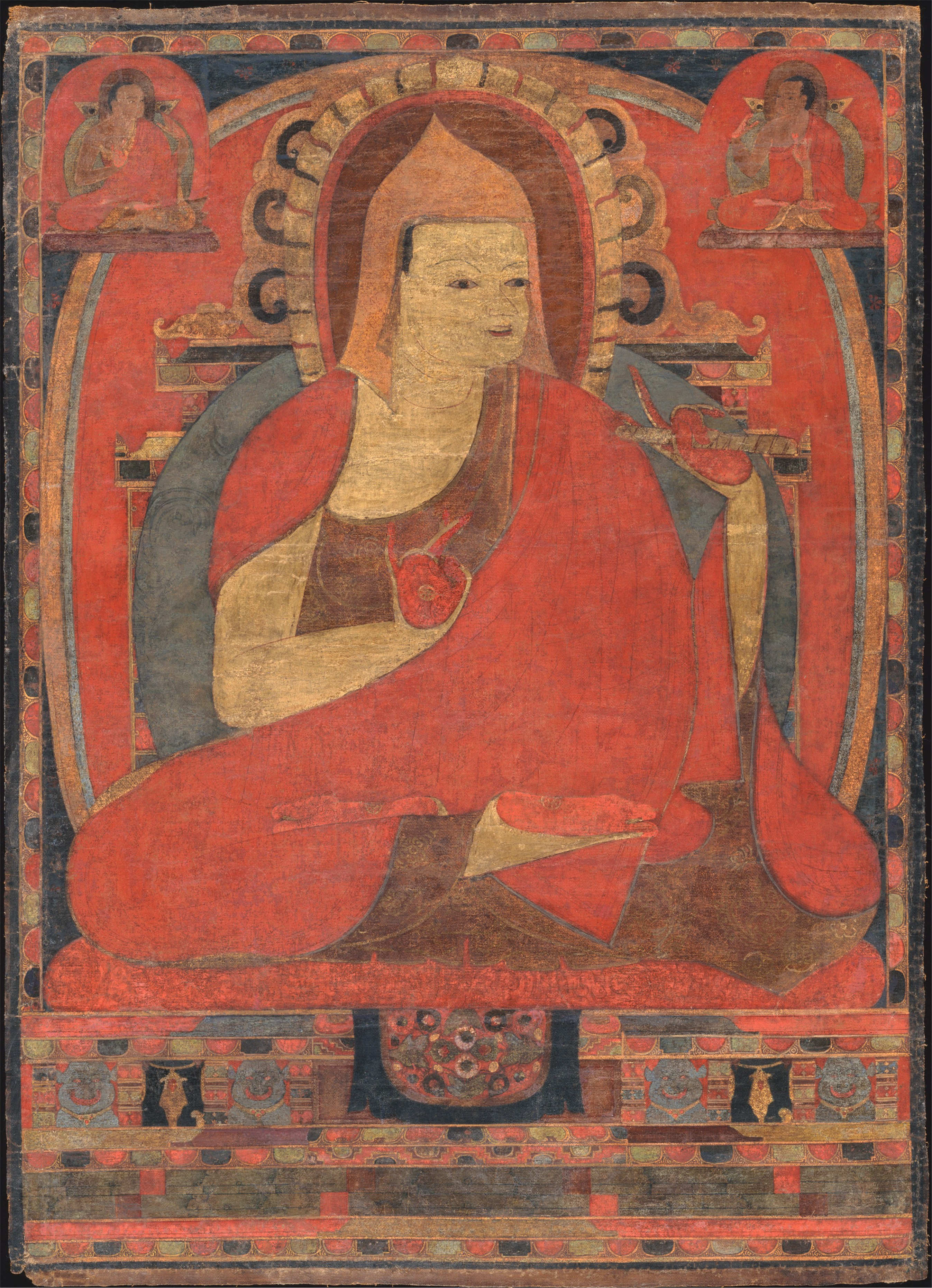 Portrait of Atisha